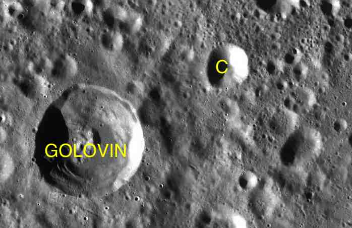 Part of the chart LAC-32 used for the presentation